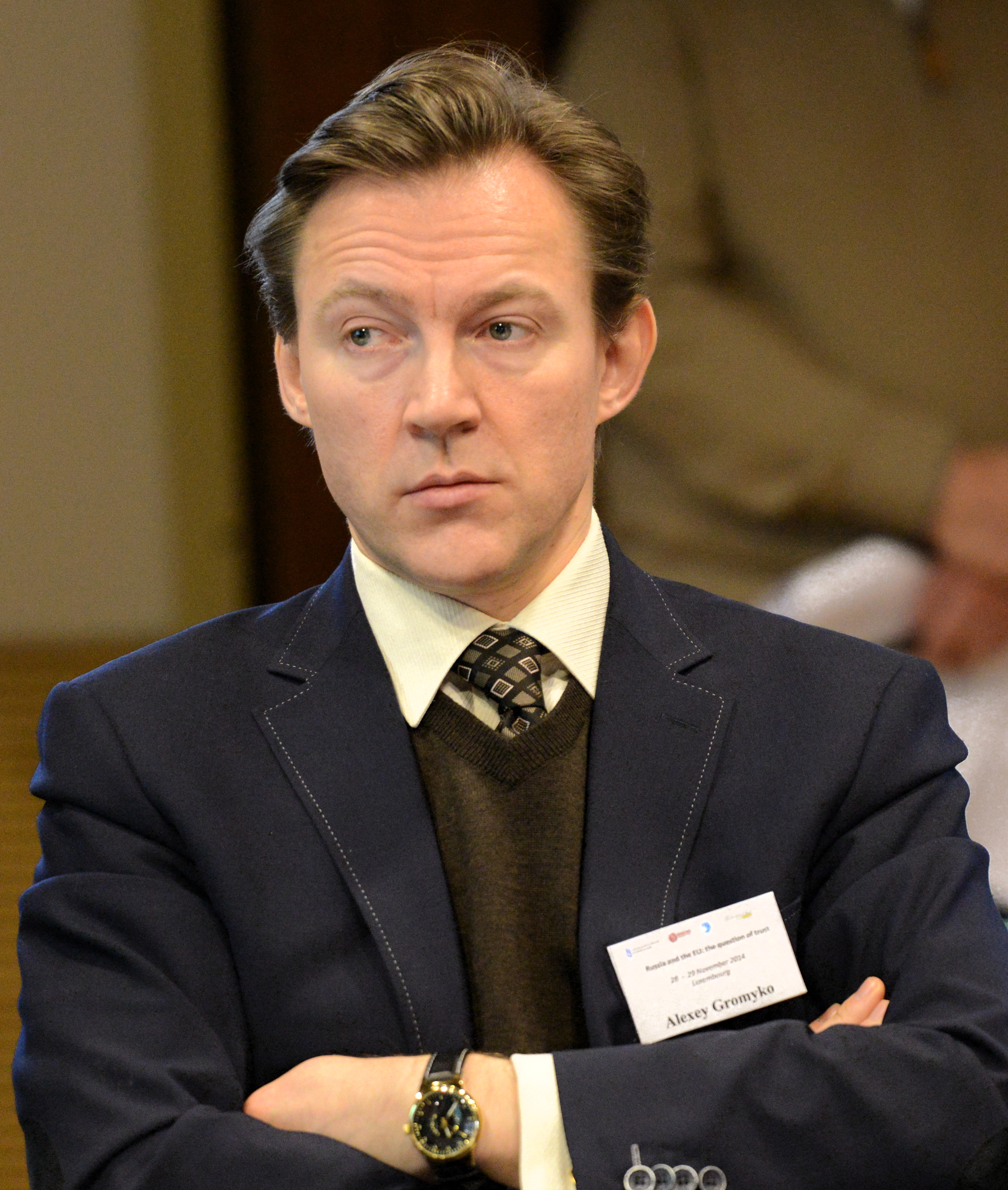 The Institut d'études européennes et internationales du Luxembourg together with the Russkiy Mir Foundation, the Russian Centre of Science and Culture in Luxembourg and the Alexander Gorchakov Public Diplomacy Fund organized the conference Russia and the EU: the question of trust, Luxembourg, 28 - 29 November 2014. Alexey Gromyko, Deputy Director, Institute of Europe of the Russian Academy of Sciences, Russia; Principal of the Centre of British Studies; Director of European Programs at the RusskiyMir Foundation, Russia.